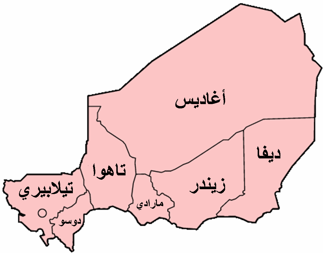 Map of the departments of Niger. Note: as of the reorganisation plan of 1999-2006, Departments have been re-named "Regions". The name department now refers to the lower level administrative unit, formerly "Arrondissements". The Regions of Niger are shown on the map above. Source: Made by User:Golbez.